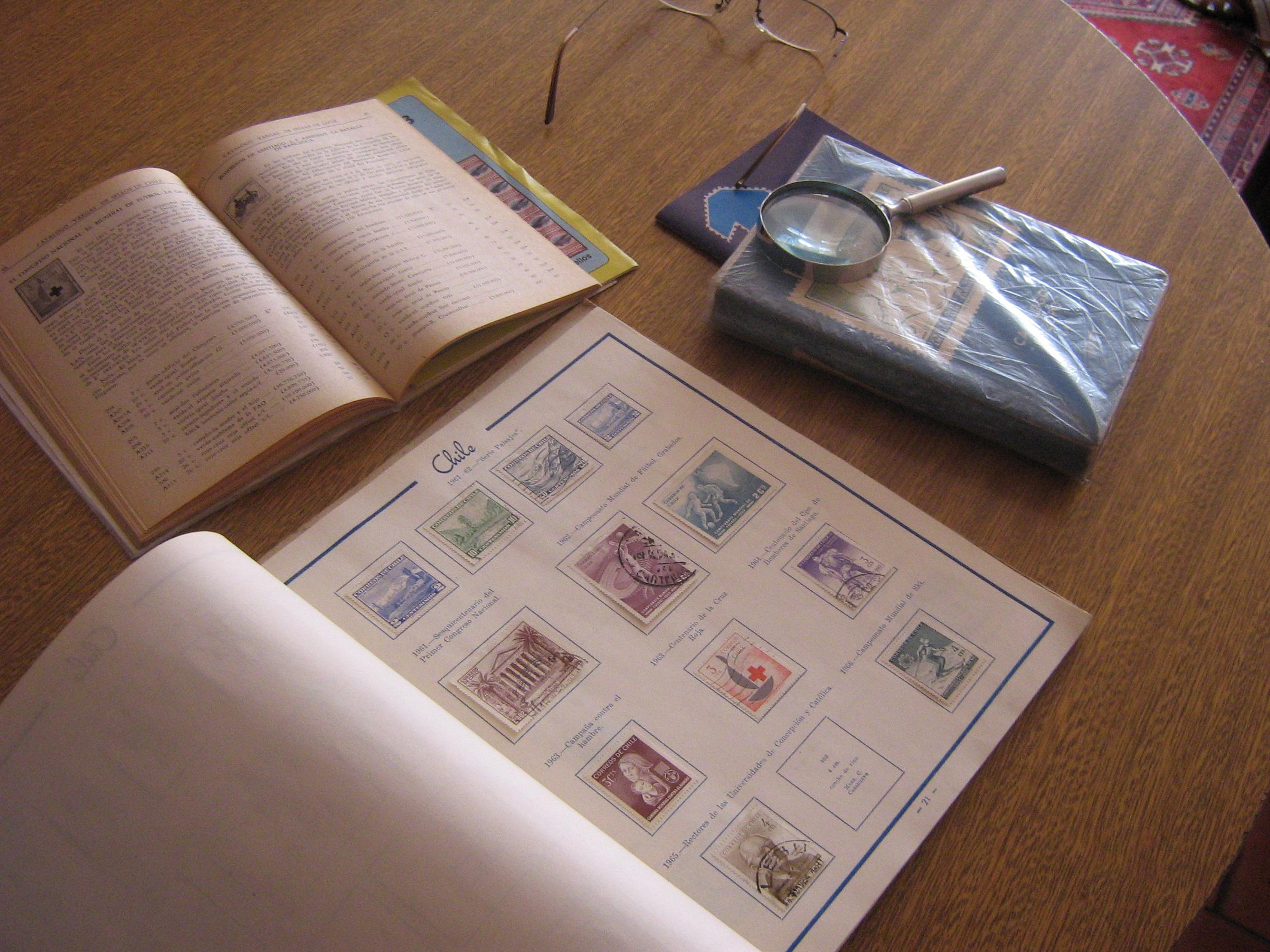 Chilean stamp album and catalogue, and a magnifying glass